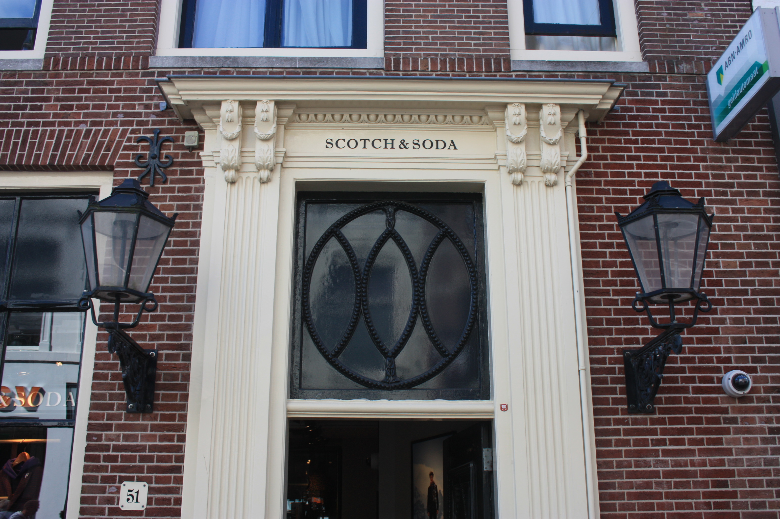 Scotch & Soda, Alkmaar, Netherlands